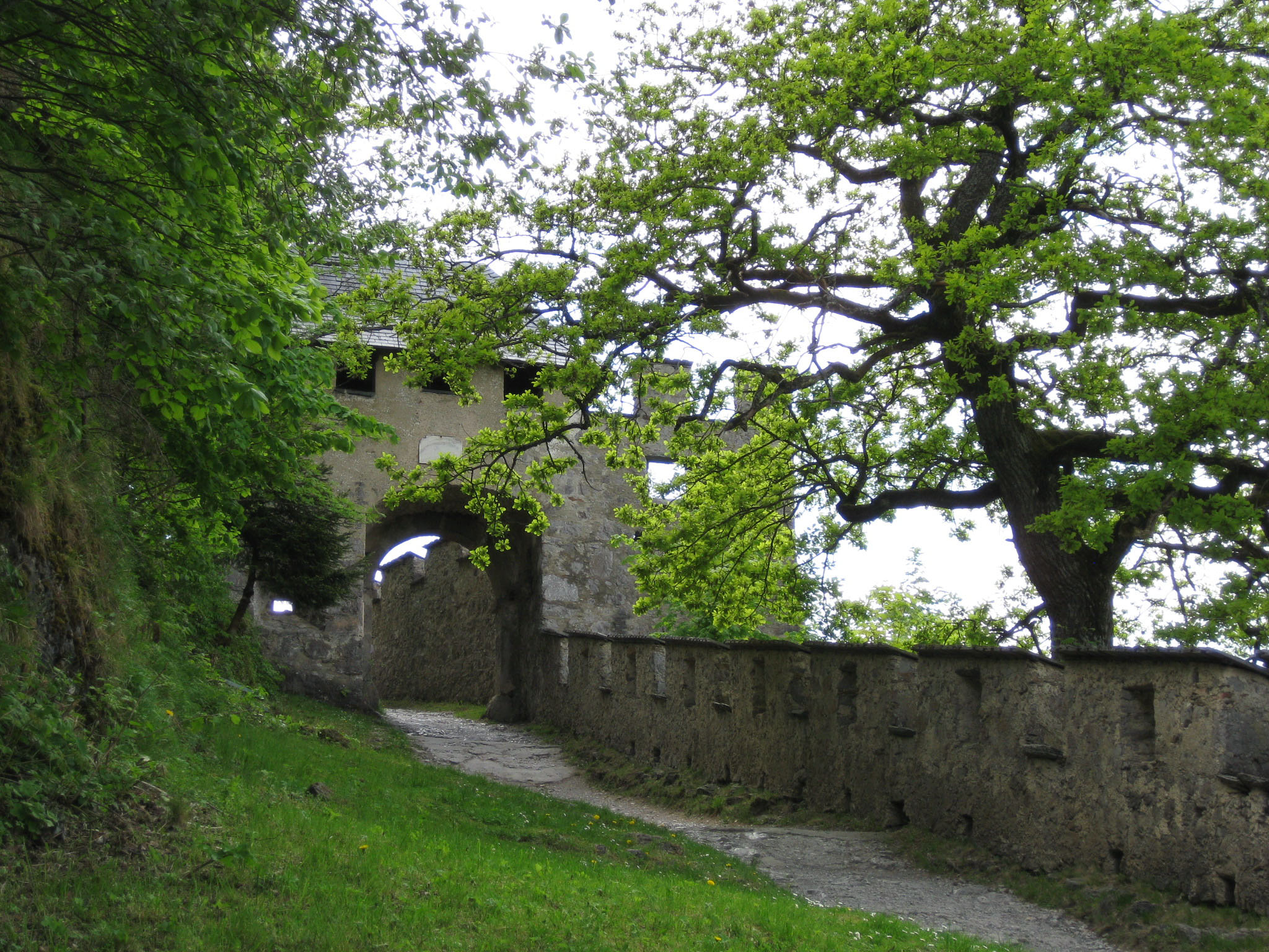 Hochosterwitz castle (slovenian: grad Ostrovica), castle in Carinthia state, Austria 6th door